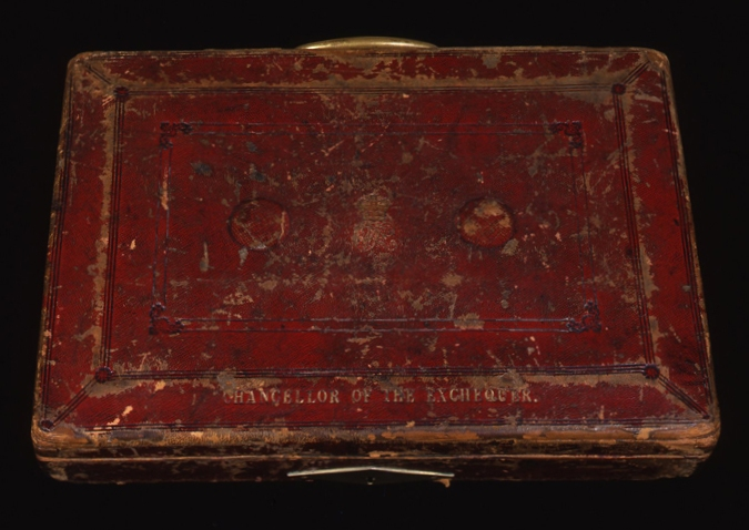 Gladstone's Red Box